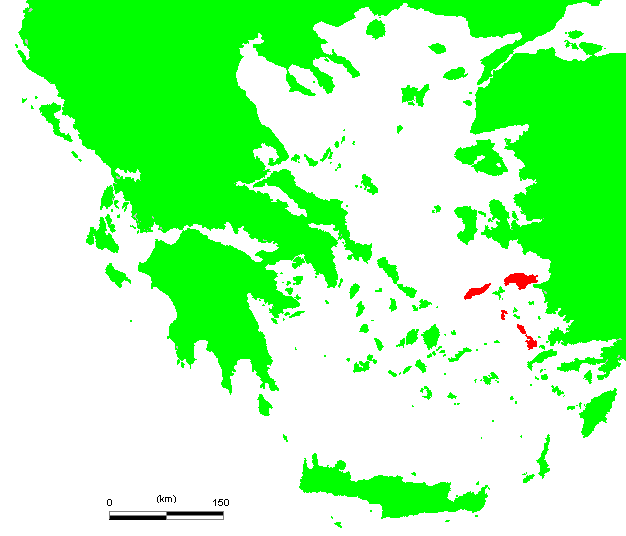 Section of Eastern Sporades (1828-1830), part of Greek State (Elliniki Politeia)